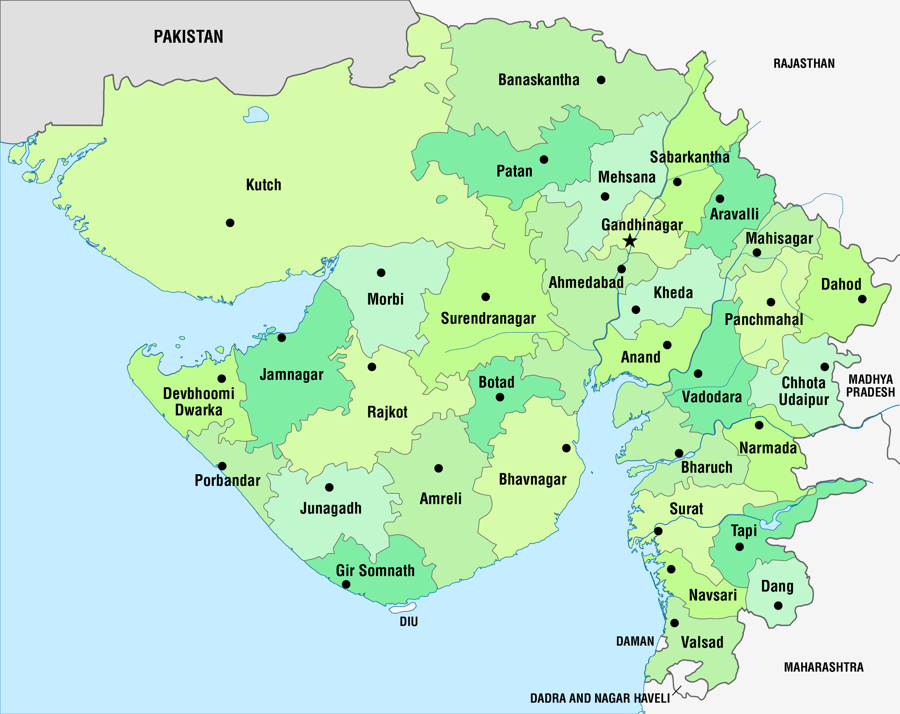 Administrative map of Gujarat with the administrative divisions since August 15, 2013